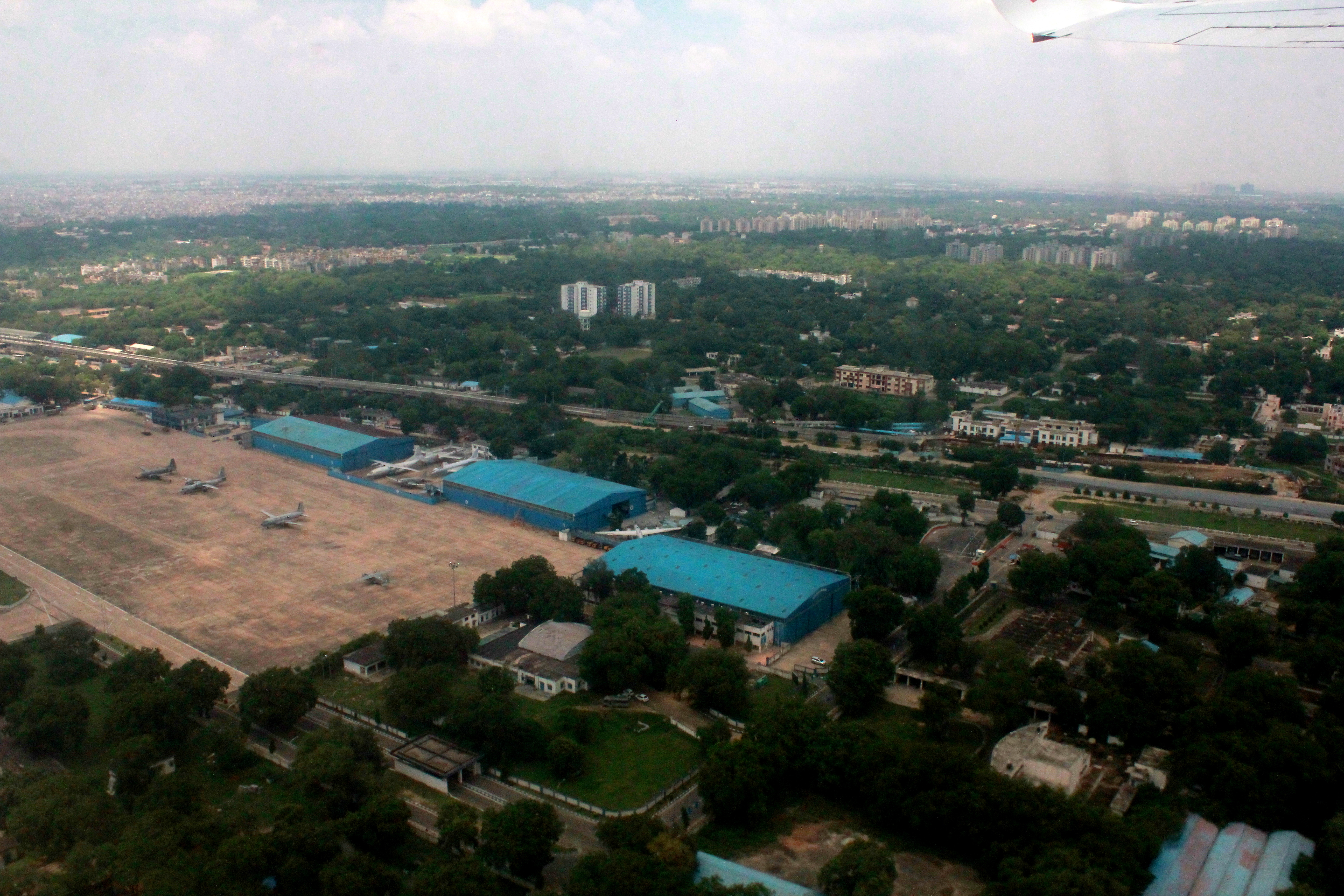 Delhi aerial photo during travel to Chandigarh Mohali for Wikiconference India 2016 on 4th Aug 2016